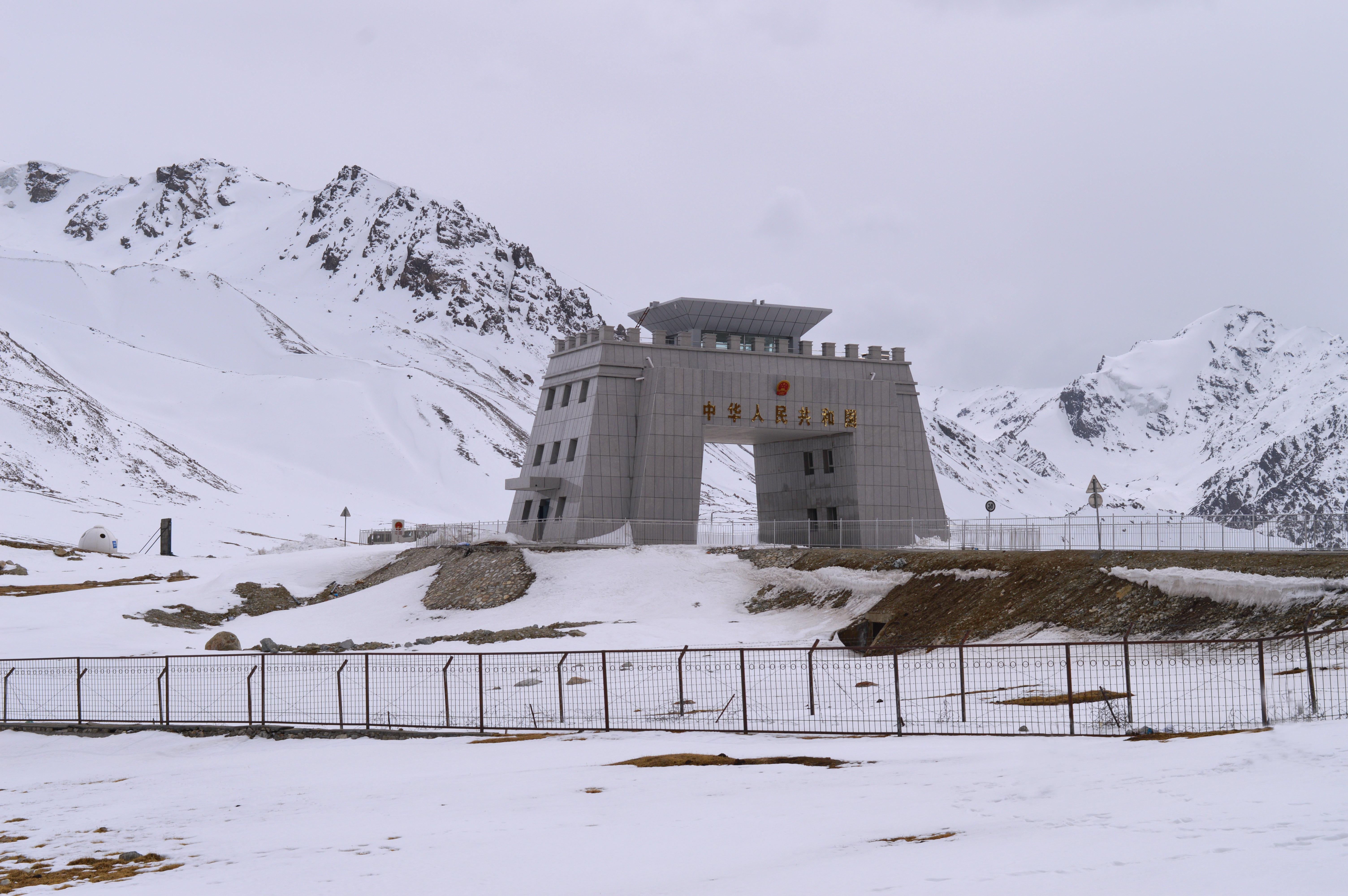 Khunjerab Pass. Pakistan-China Paved Border.